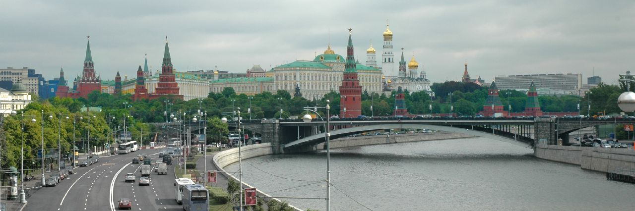 View of the Kremlin in Moscow, Russia